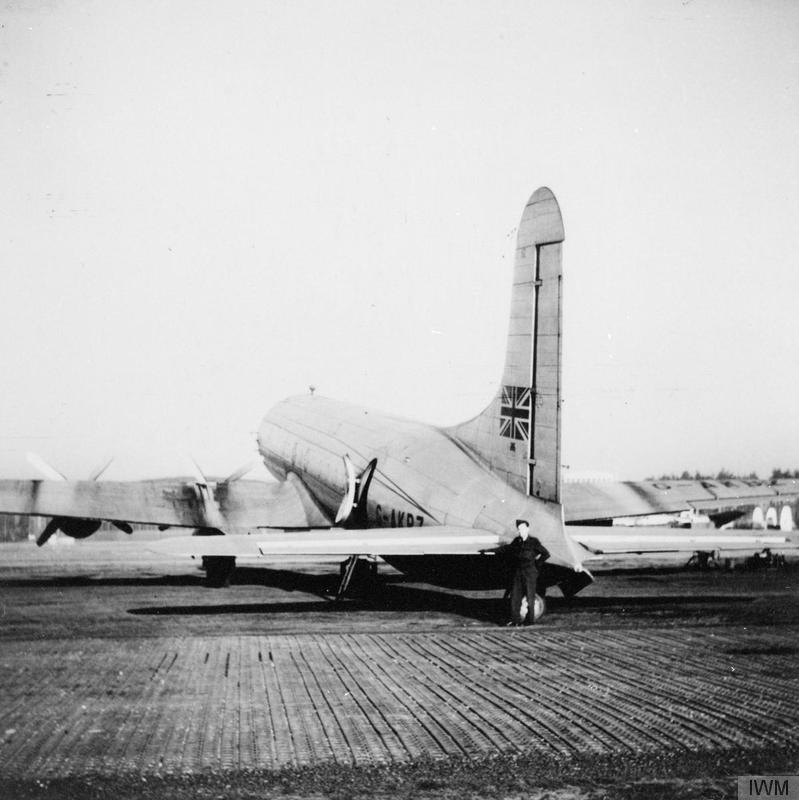 The Berlin Airlift 1948 - 1949 A civil registered Avro Tudor C5, G-AKBZ 'Star Falcon', of British South American Airways at Wunstorf aerodrome during the Berlin Airlift, 1948. This aircraft was used as a fuel freighter during the Airlift.